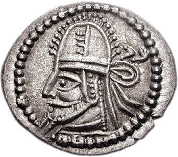 Coin of the Arsacid king Artabanus IV (cropped), Hamadan mint.